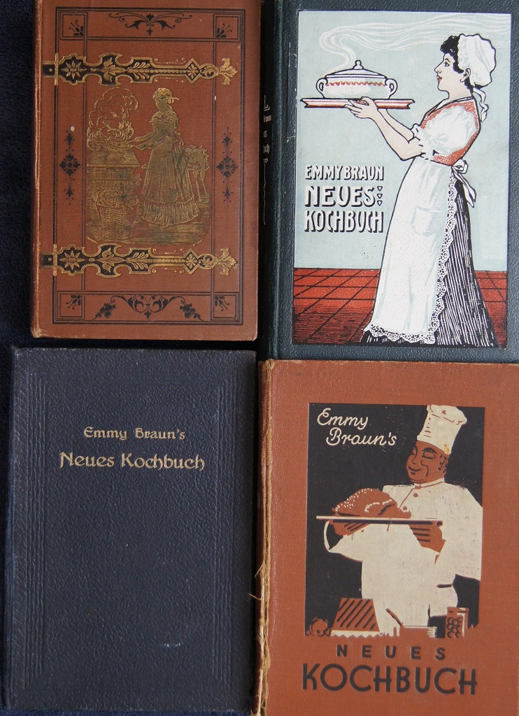 Cookbook written by 'Emmy Braun'